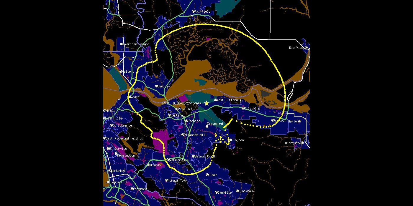 KVHS Broadcast Coverage Map